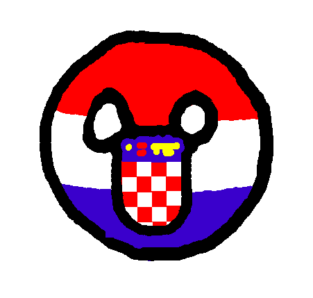 Croatiaball.